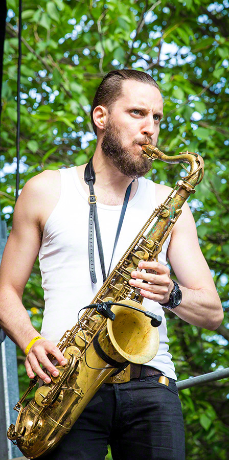 Bobby Hughes Experience performs at Piknik i Parken in Oslo on 25. June 2016. Lineup:Espen Horne (DJ)David Wallumrød (keyboard)Mathias Eick (trumpet)Jørgen Munkeby (tenor saxophone)Sidiki Camara (percussion)Unkown (drums)Unkown (dancer)